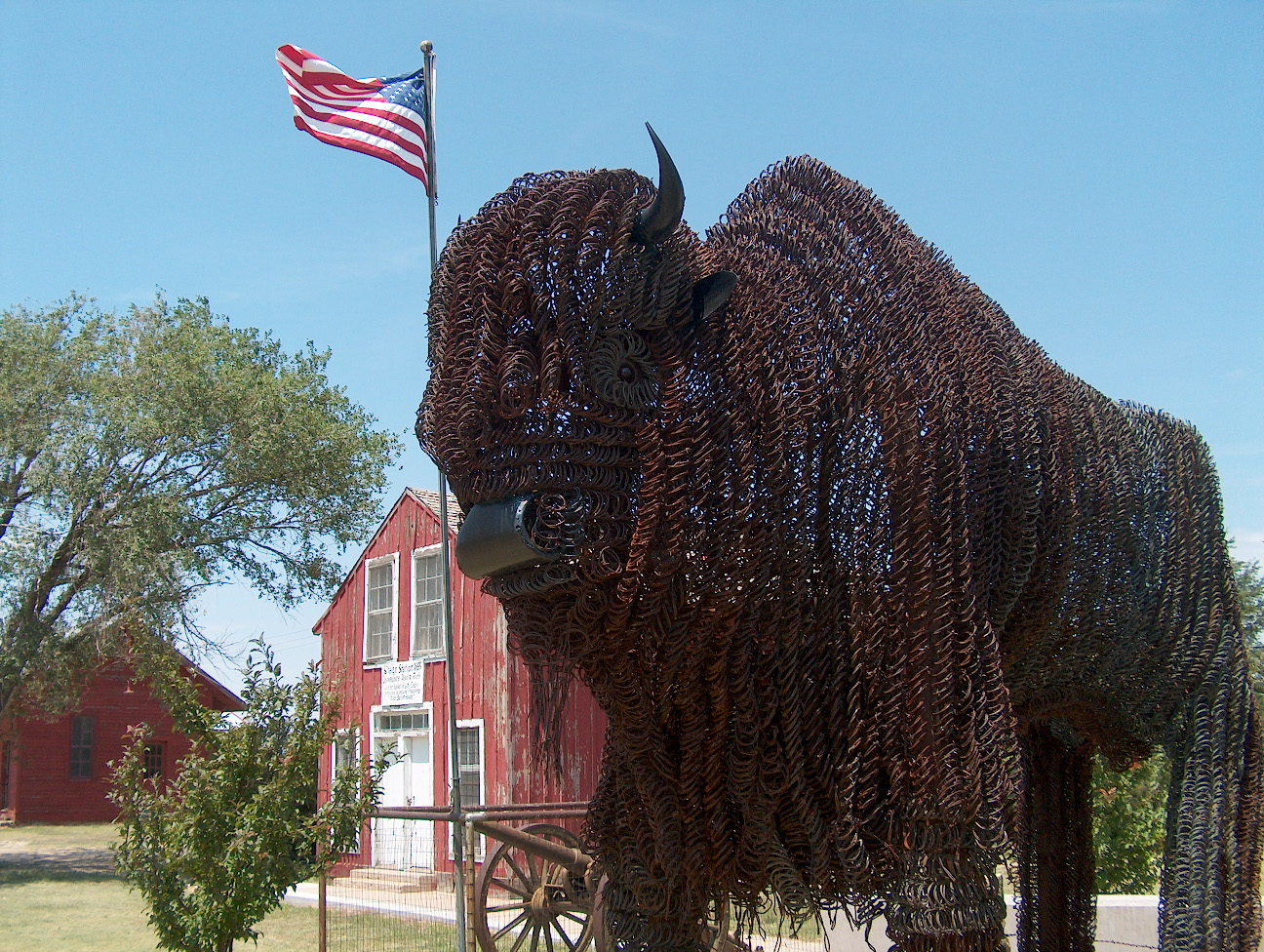 Barbed-wire buffalo at Fort Wallace Museum, Wallace, Kansas. Photo by Ken Gallager, July 25, 2006.